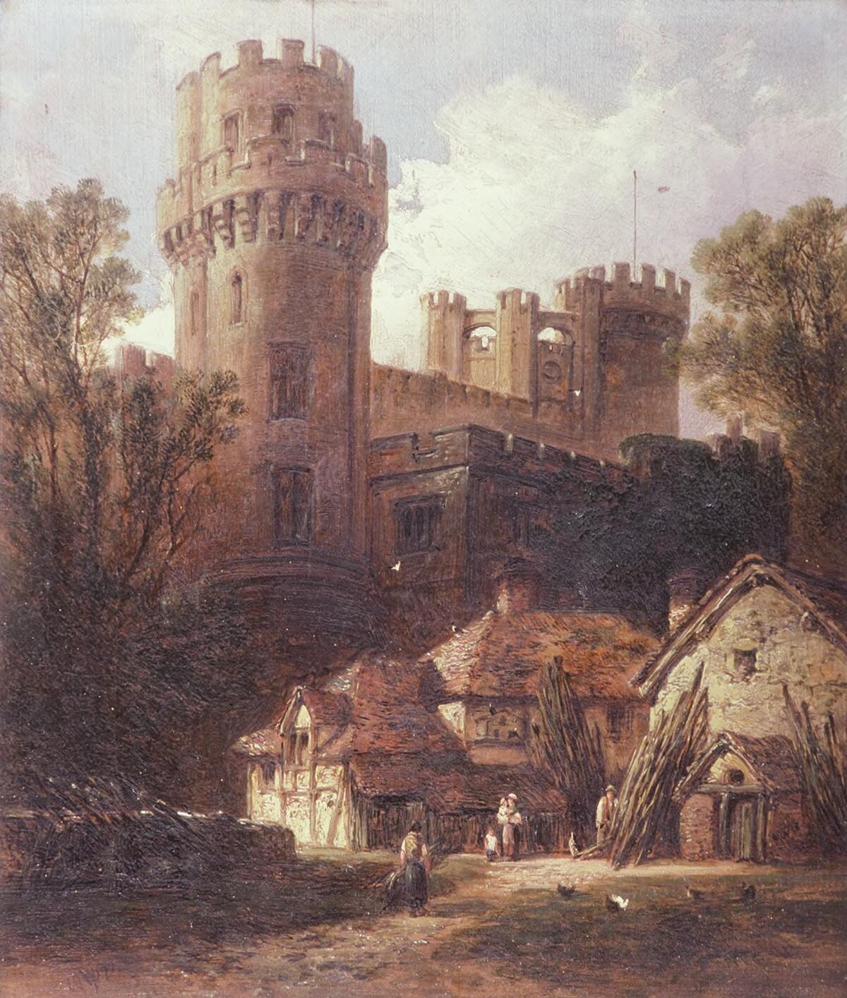 A painting from the Framed Works of Art collection at the National Library of wales.